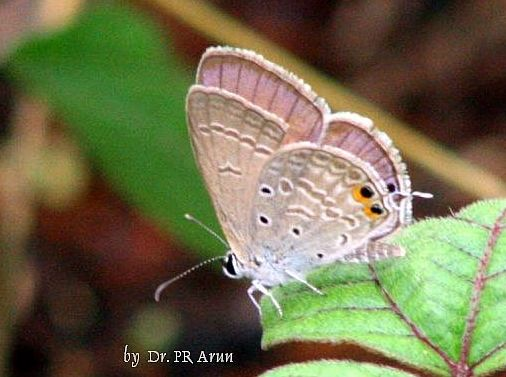 The Gram Blue (Euchrysops cnejus) from Vikhroli, Mumbai